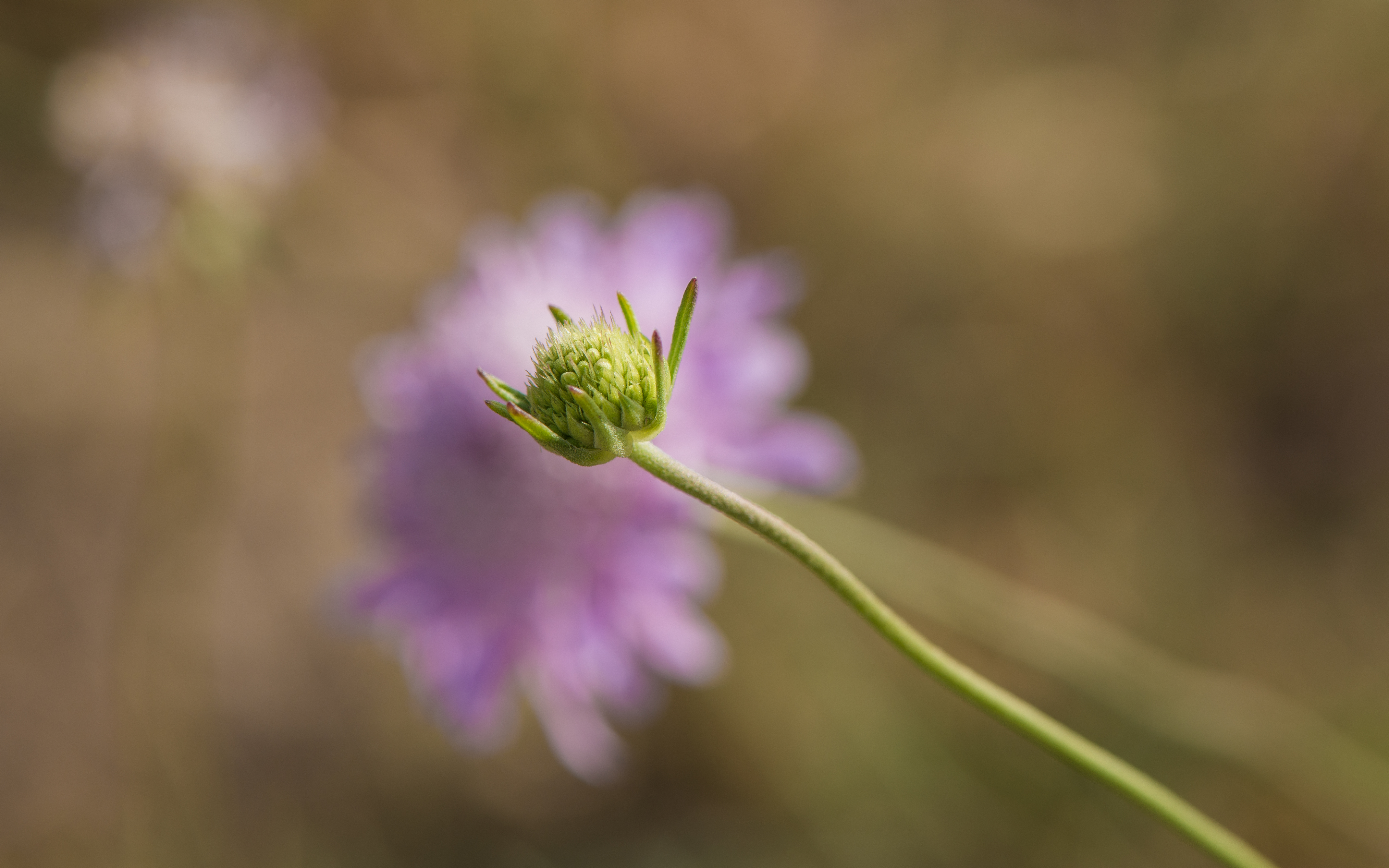 A flower bud of Scabiosa atropurpurea subsp. maritima (Sweet scabious).